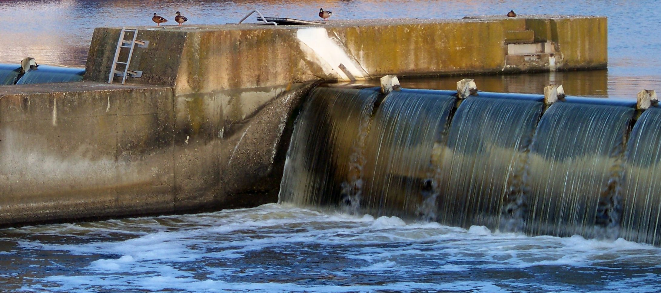 Lahovice and Modřany, Prague, the Czech Republic. Modřany Weir. - Google Maps - Google Earth